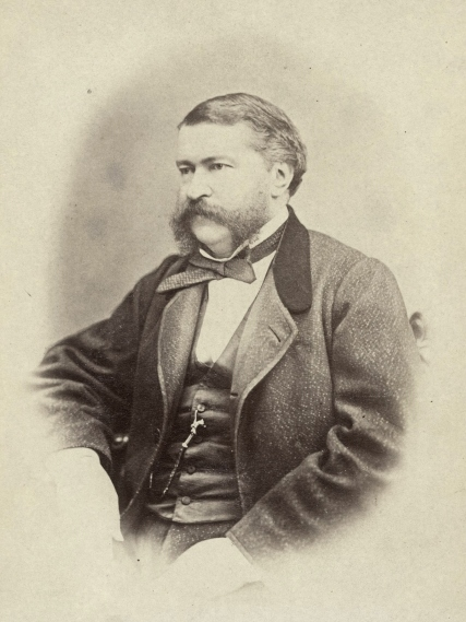 Franz Karl Freiherr von Becke (1818-1870), minister of finance of Austria-Hungary